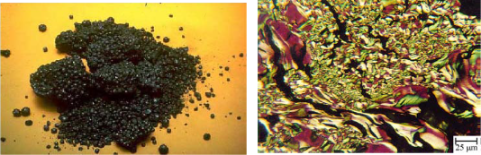 Shot coke and its microstructure